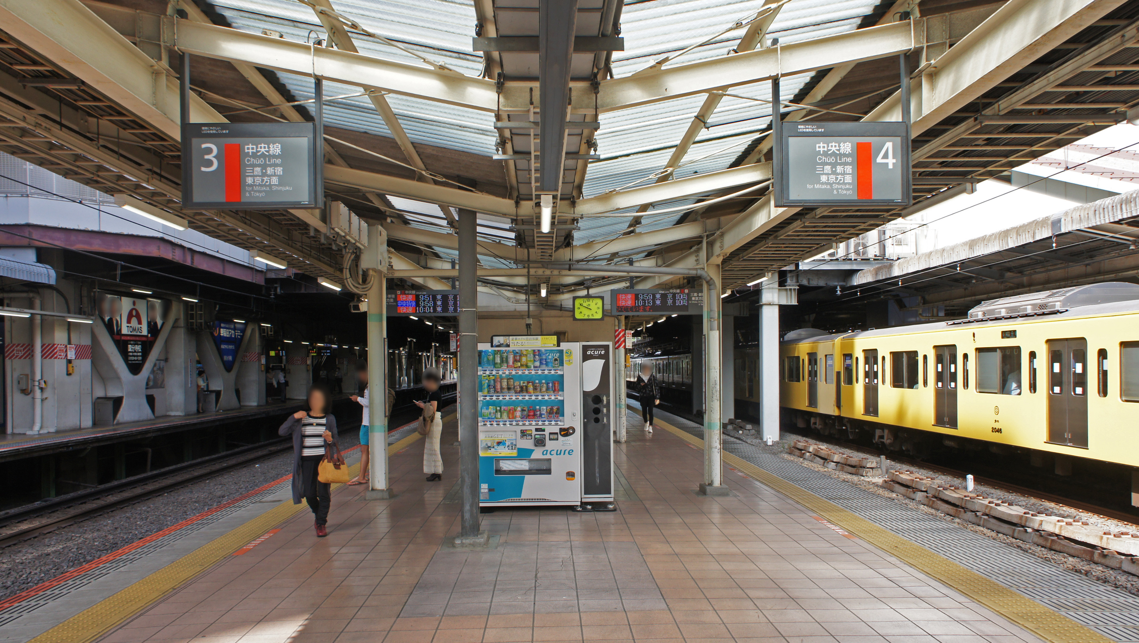 Platform 3・4 of JR Chuo-Main-Line Kokubunji Station